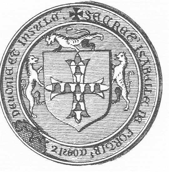 18th century drawing of seal of Isabella de Forz, Lady of the Isle of Wight. Her paternal arms of Redvers (Or, a lion rampant azure) are repeated as a border around a shield containing the arms of her husband, William de Fortibus (a cross patonce). Legend: "SECRETUM ISABELL(A)E DE FORTIB(U)S (COMITISSAE) (de) DEVONI(A)E ET INSUL(A)E" (Personal seal of Isabella de Forz, Countess of Devon & The Isle (of Wight))